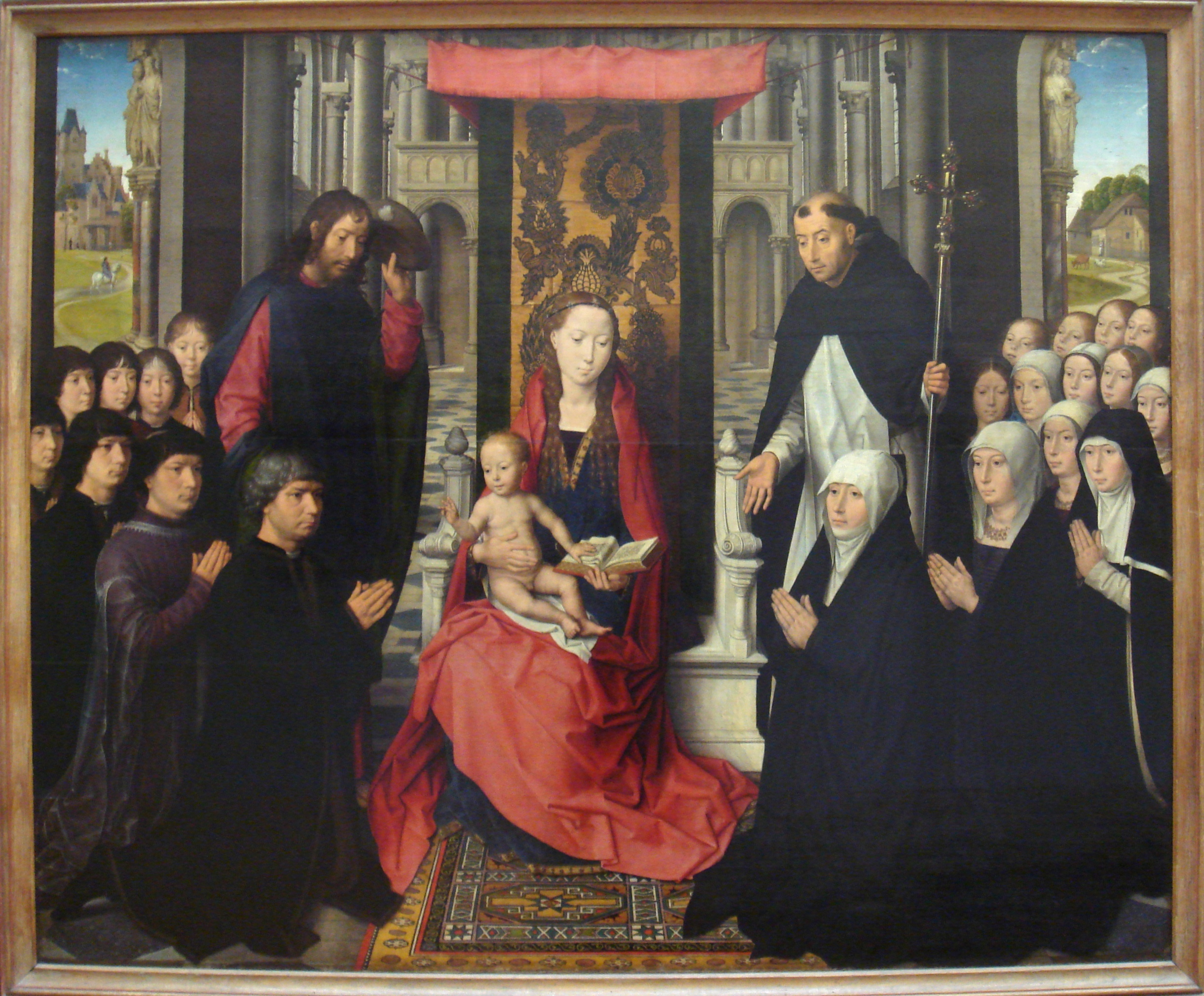 The Virgin and Child between St James and St Dominic by Hans Memling. An Armenian rug is on the floor. Unknown dateUnknown date: commissioned by Jacob Floreins (†1488), Bruges (?) Unknown dateUnknown date: acquired by comte d’Armagnac 1878: bequeathed to Louvre Museum, Paris, by comtesse Duchâtel